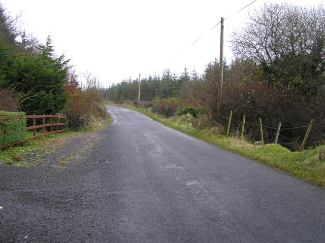 Mill Road Pictured heading north-east at Knockranny